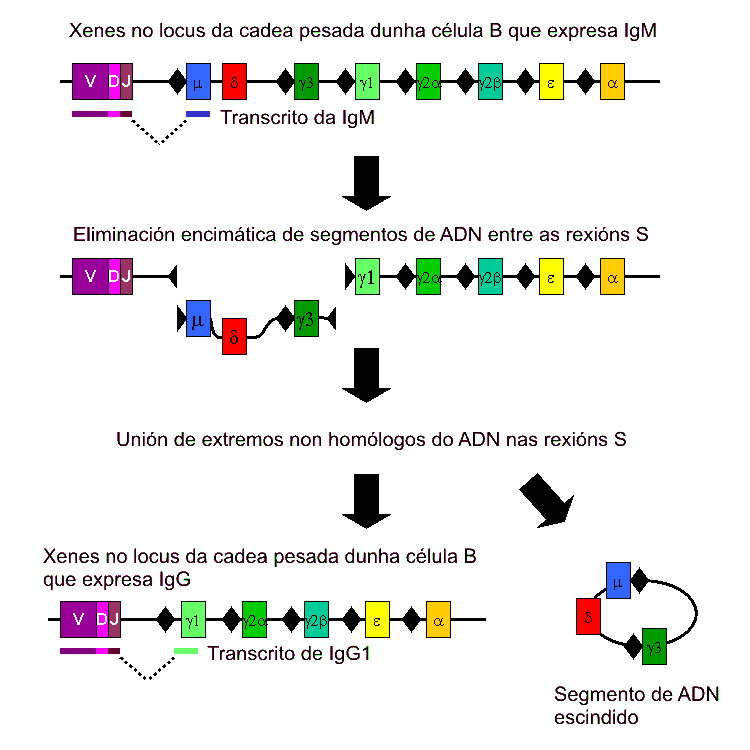 class switch of immunogobulins annotated in Galician